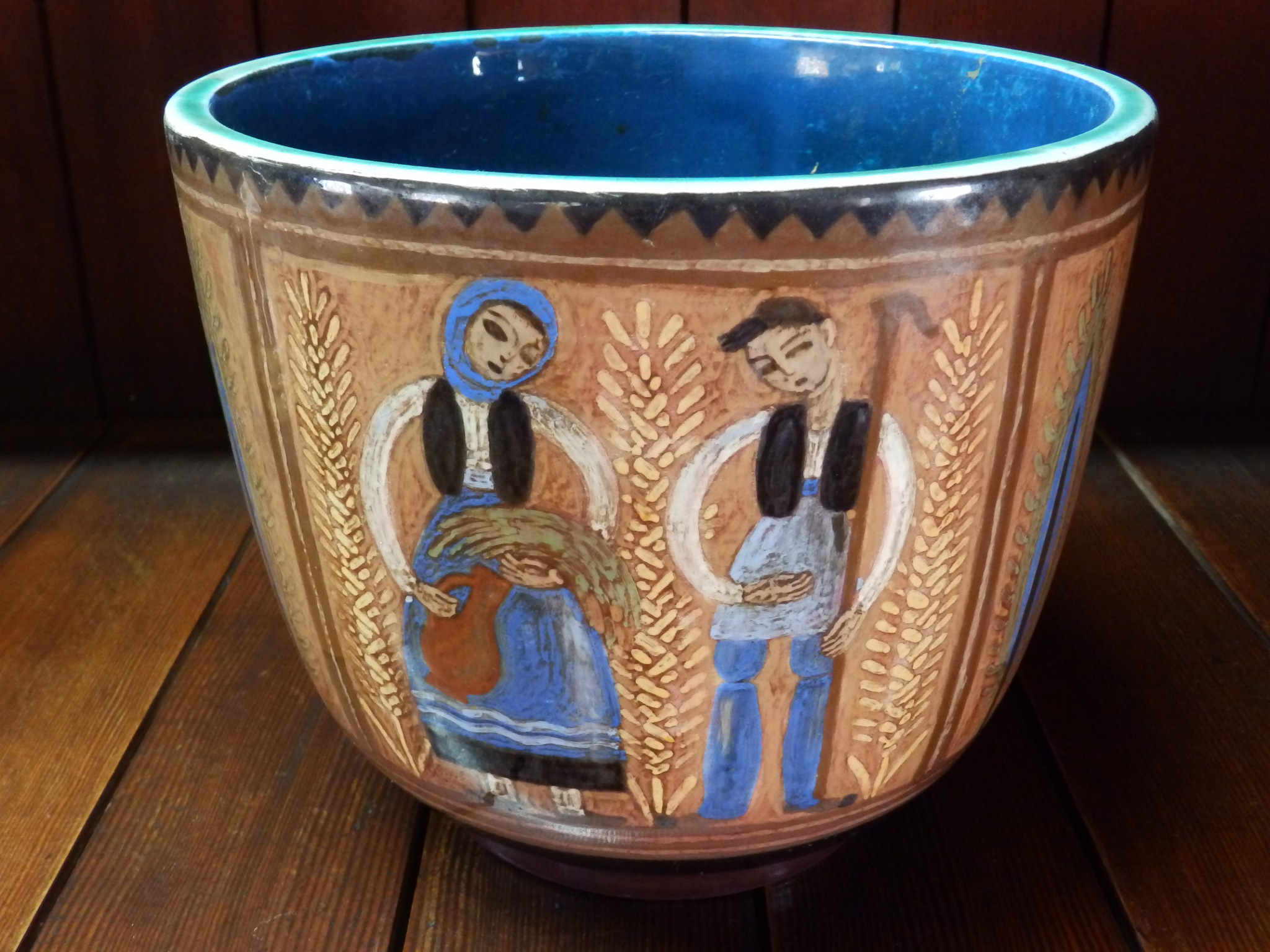 Κεραμεικός 1939